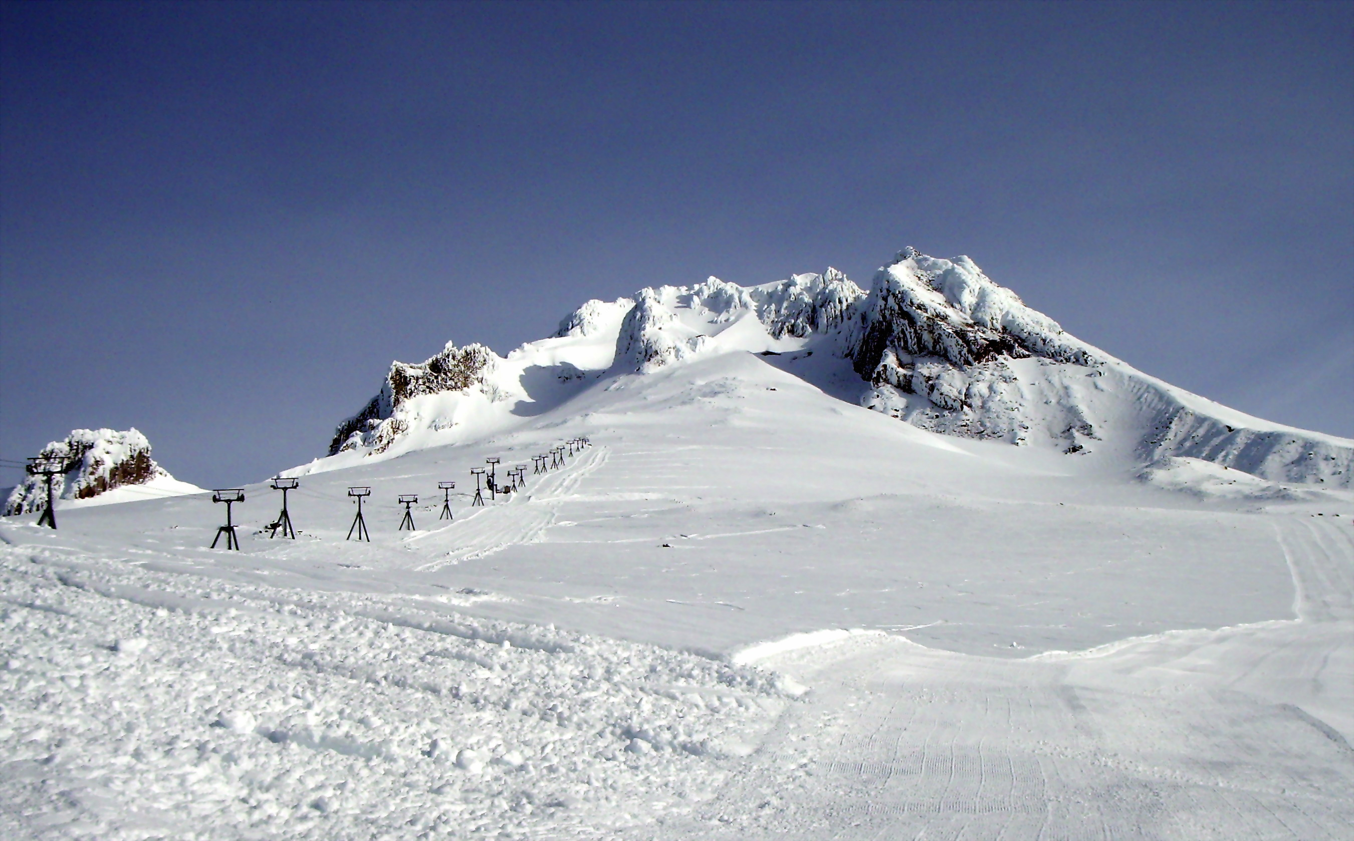 Palmer Glacier and the Palmer Chairlift seen from near the top of the Magic Mile and Silcox Hut. The glacier is named for Joel Palmer, one of the first people recorded to ascend to it in 1845.